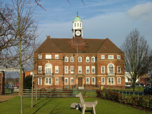 Letchworth Town Hall. Most functions have now moved out of here and are delegated and dispersed to other offices.